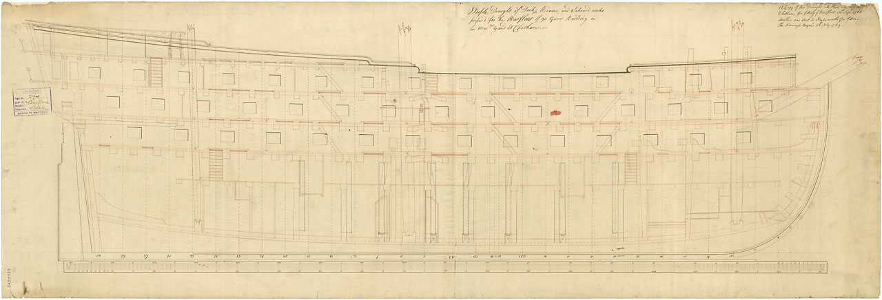 Plan showing the inboard profile proposed (and approved) for fitting for 'Barfleur' (1768) and later for 'Princess Royal' (1773), both 90-gun Second Rate, three-deckers.